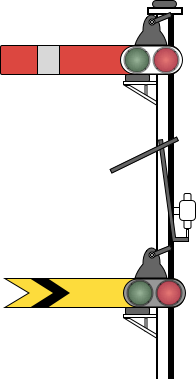 Railway semaphore signal widespread after the 1850s, and still in use today, semaphore arms signaled "danger" when in the horizontal position and "all clear" when angled either up or down. Red arm is Red square-ended arm, Yellow arm is Yellow distant warning arm.